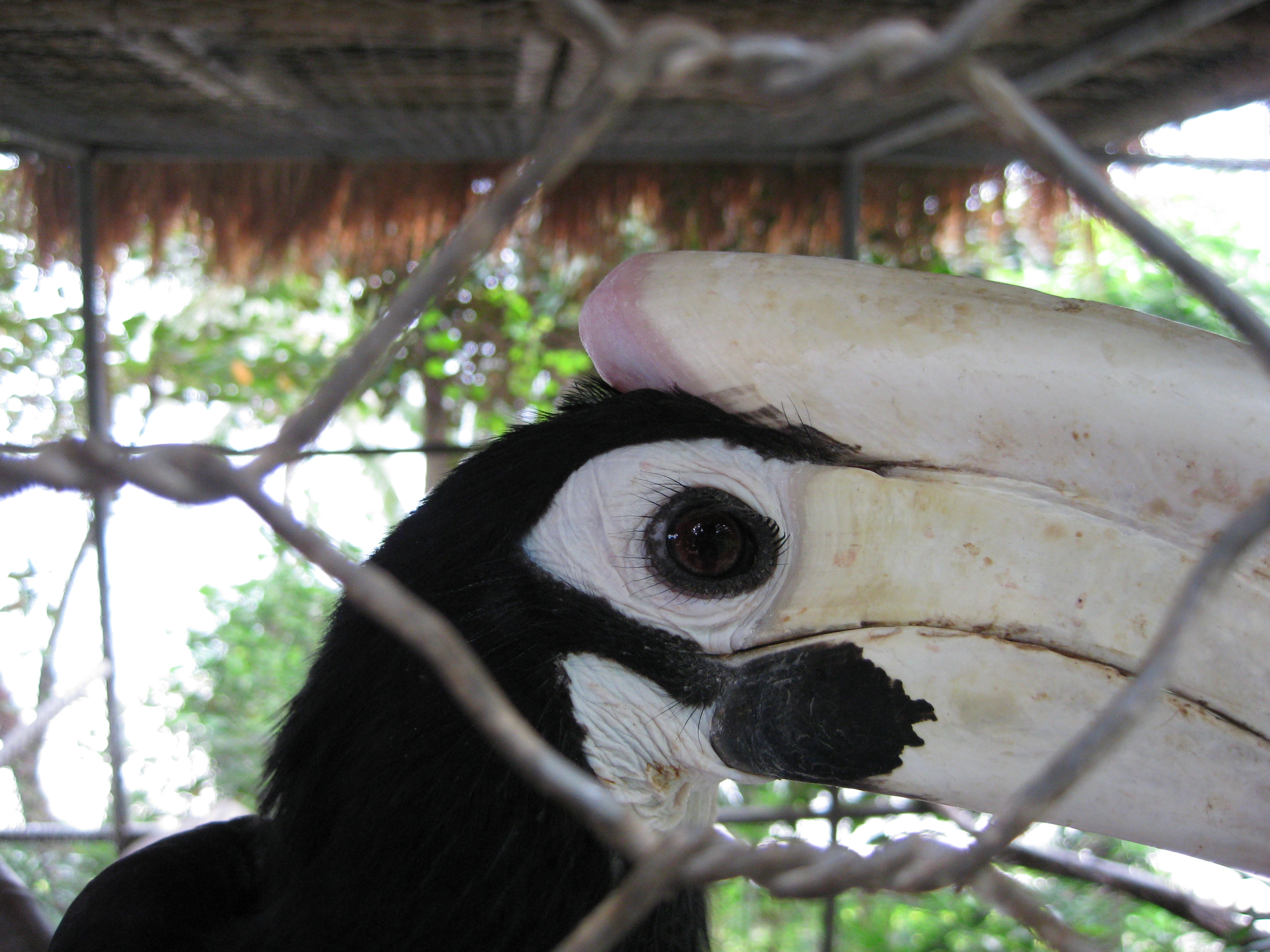 Palawan Hornbill, also known locally as Talusi, photographed at Eagle Point Resort at Batangas, southern Luzon, Philippines.